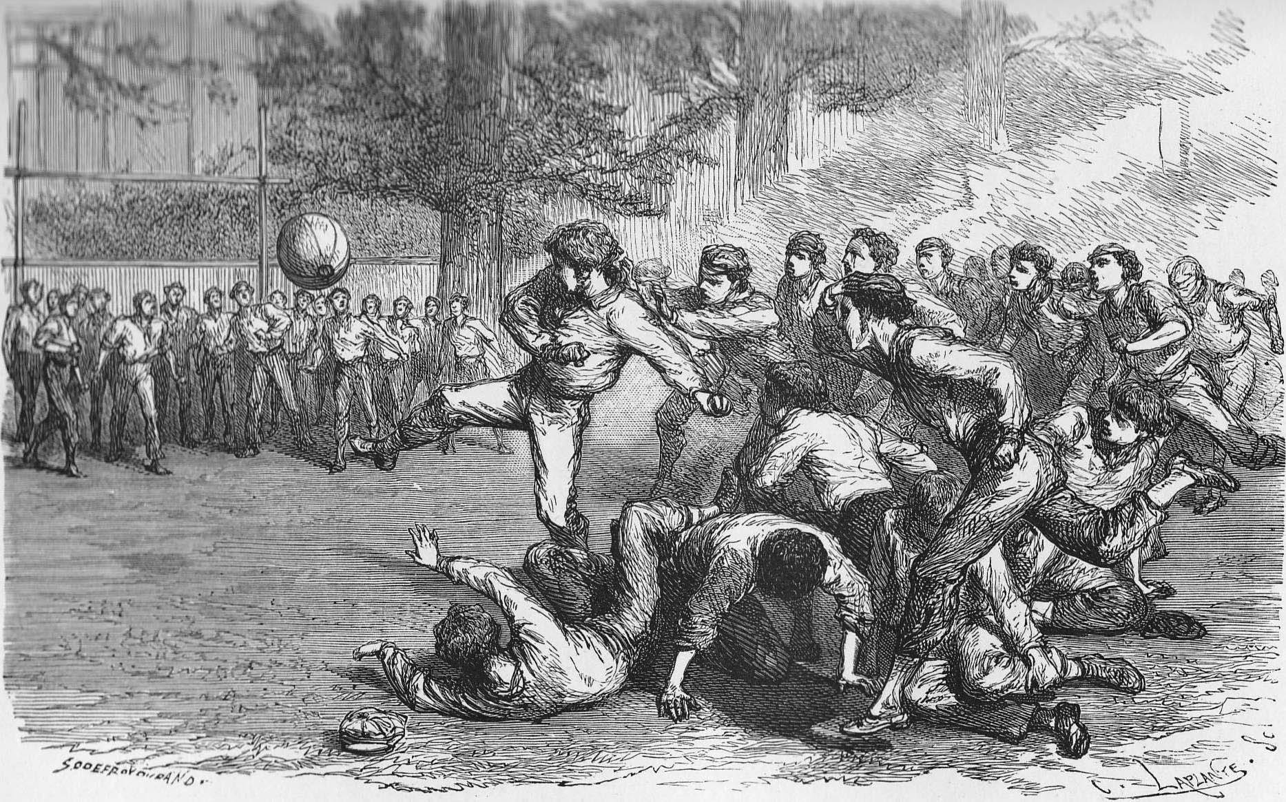 Illustration of a football match for the novel.